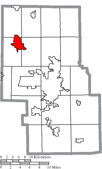 Map of the municipal and township boundaries of Richland County, Ohio, United States, as of the 2000 census, with the location of the city of Shelby highlighted. Township borders are shown only in unincorporated areas in order to differentiate incorporated and unincorporated areas more clearly.